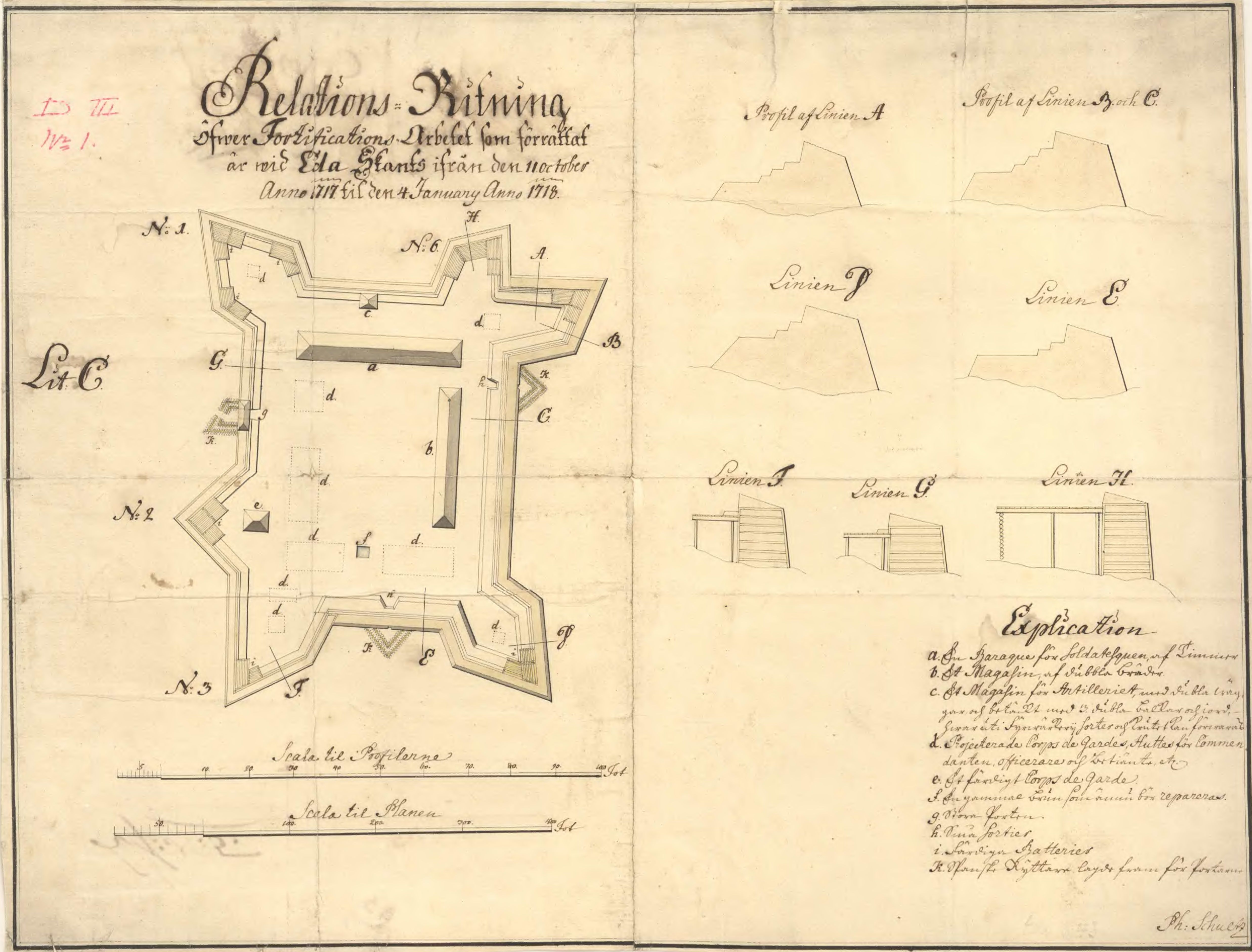 Map showing the work done at Eda sconce, Värmland in Sweden, from 11th October 1717 - 4 January 1718.